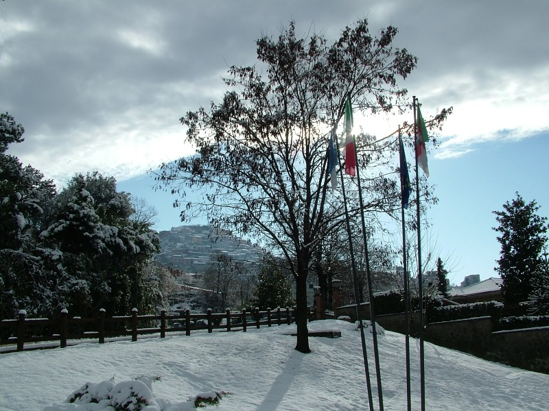 Rocca di Papa, A view of the town